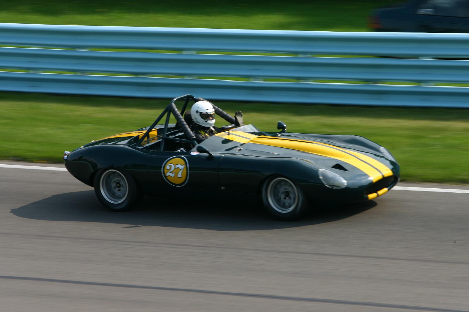 27 - 1967 Jaguar XKE (4.2L) Driven by Randy Williams of Towanda, PA